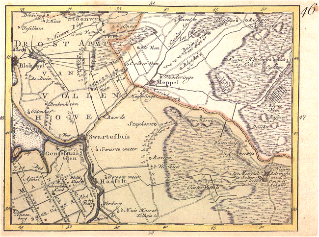 Fragment of a map from 1773 showing the settlement of Nieuwleusen (OosterVeen).